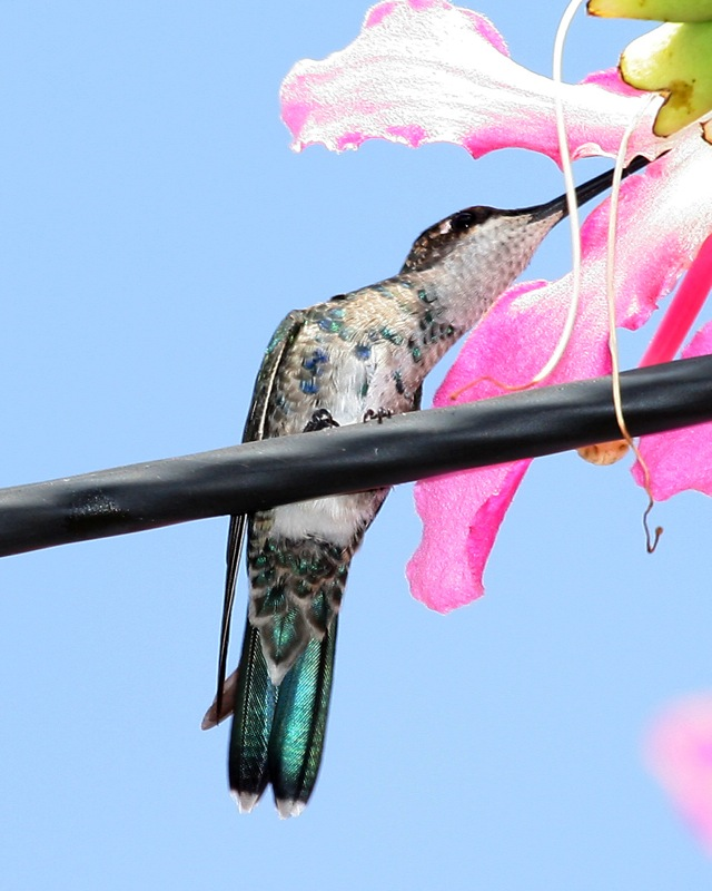 sub-adult male Blue-tufted Starthroat (Heliomaster furcifer) at Ibera Marshes (Argentina), 3rd. April 2006